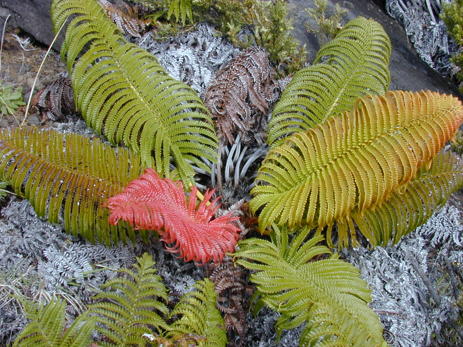 Sadleria cyatheoides (fronds). Location: Maui, old switchbacks